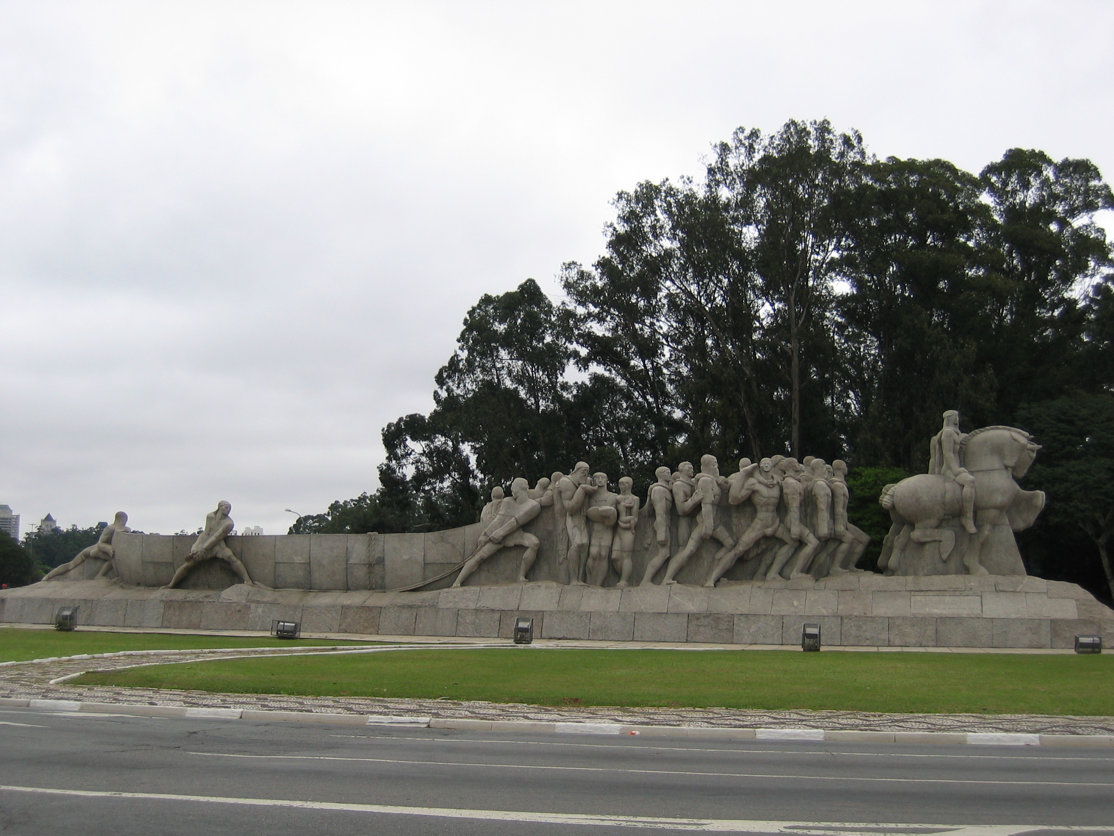 Monument for the Bandeiras in Sao Paulo, Brazil